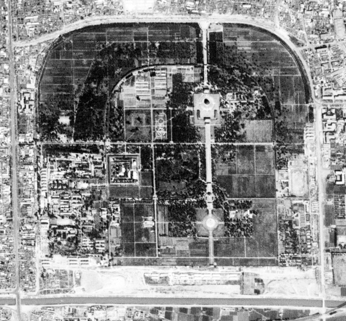 Temple of Earth. Spatial tentatively corrected. 中文（中国大陆）: 地坛公园。空间上尝试性矫正过。